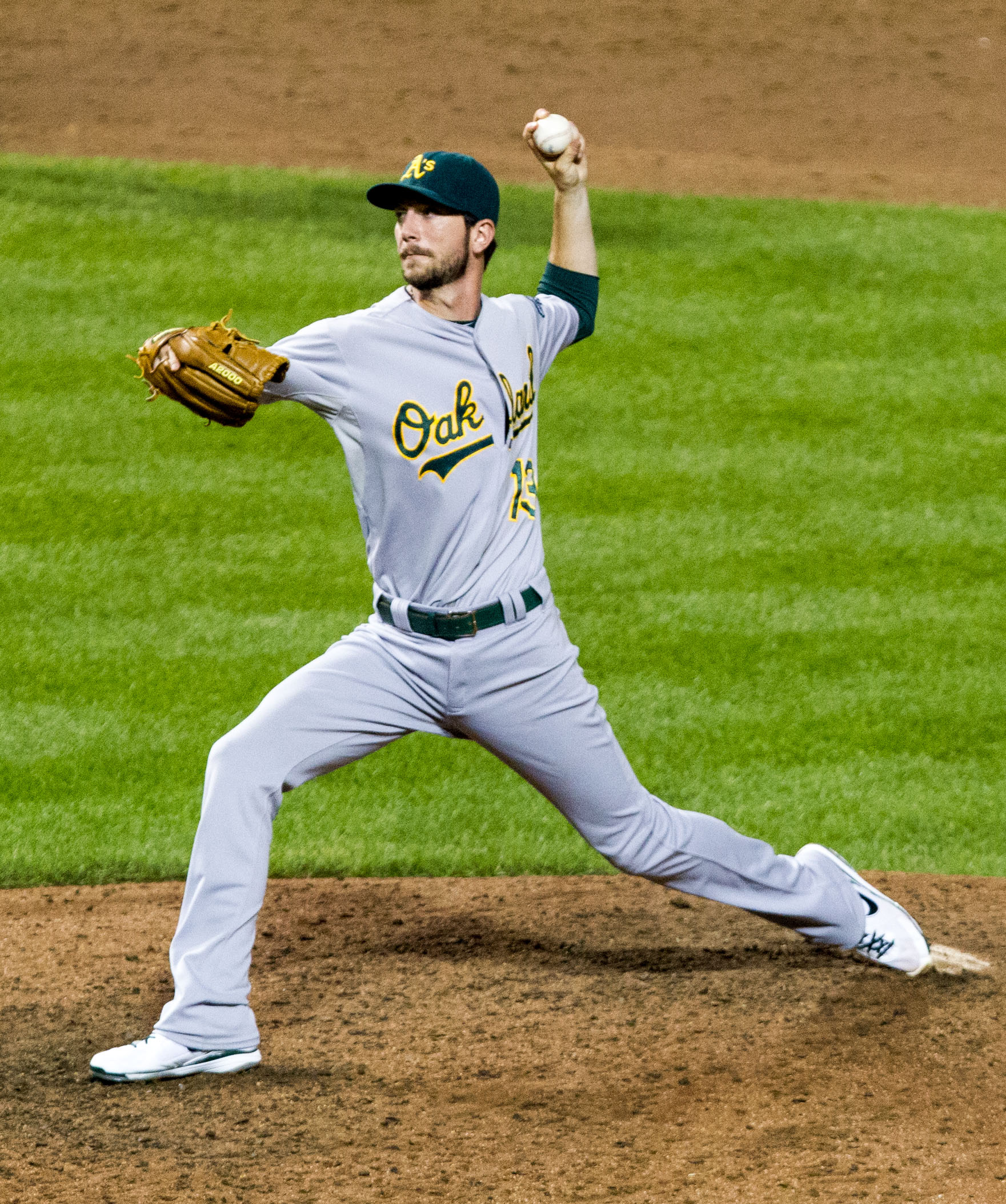 Oakland A's pitcher Jerry Blevins - Athletics at Orioles July 27, 2012